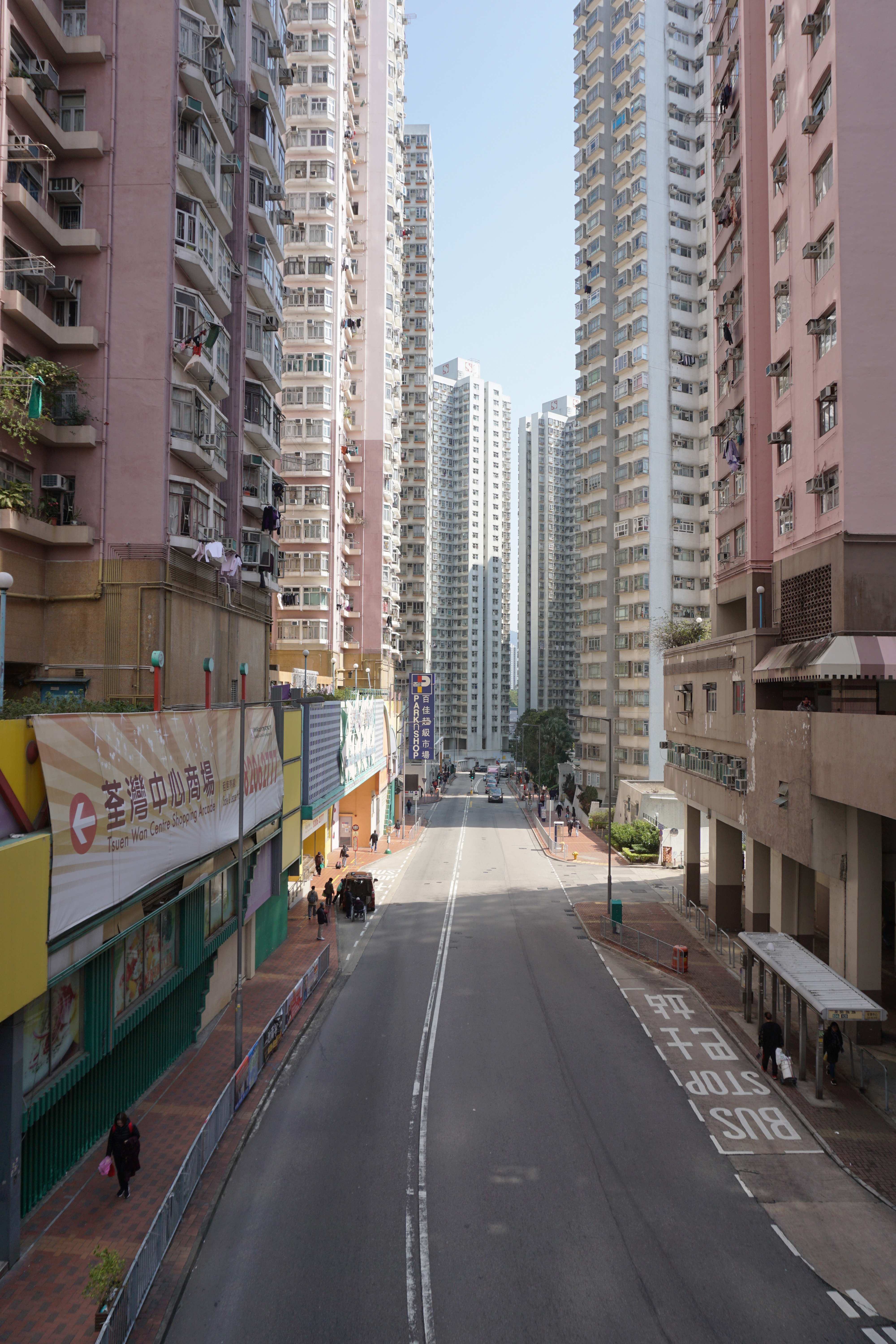 Tsuen King Circuit in Tsuen Wan, Hong Kong.